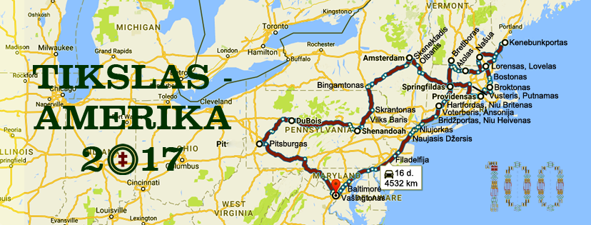 "Destination America 2017" journey map with English city names marked in Lithuanian